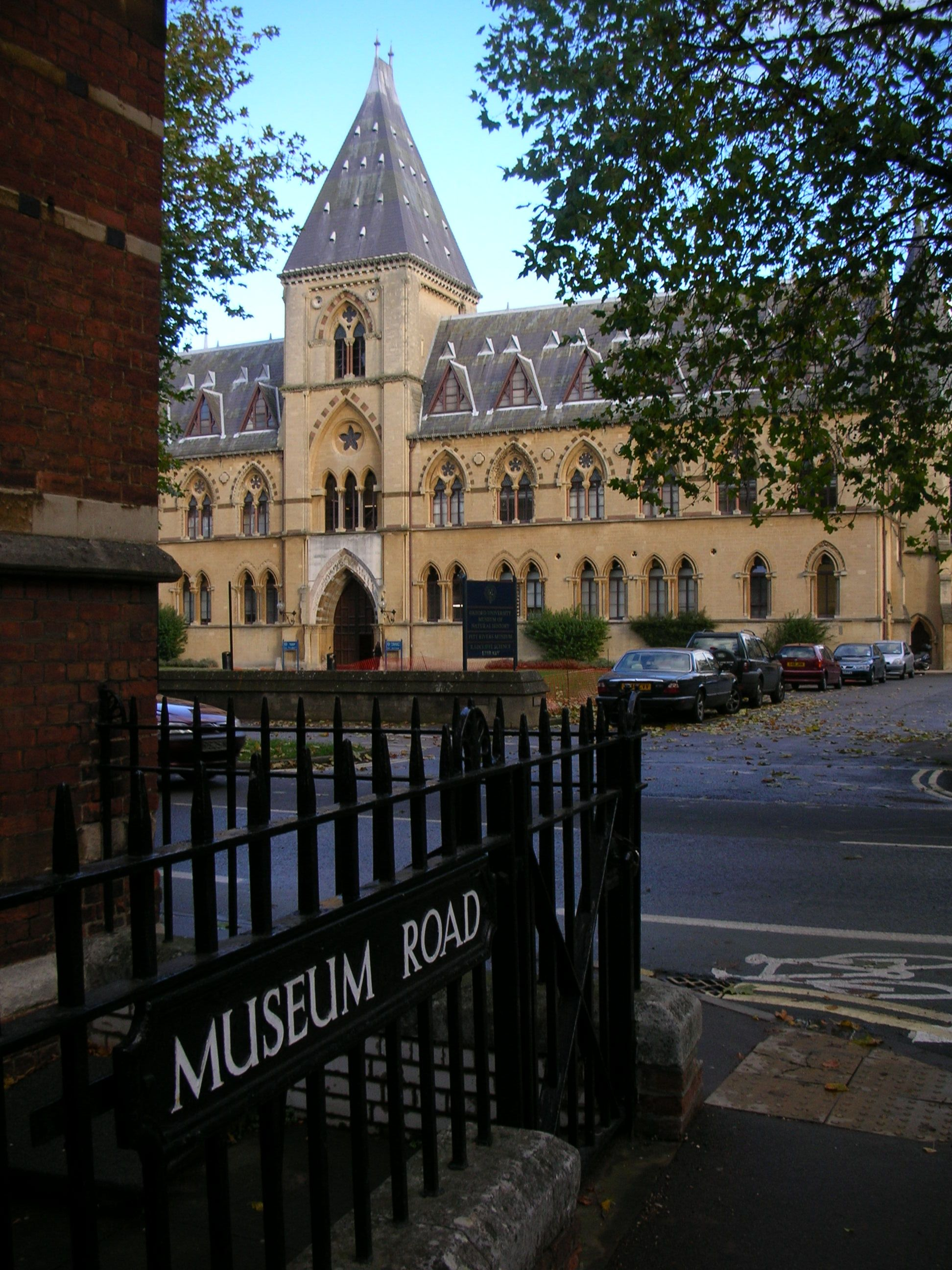 View of the Oxford University Museum of Natural History from Museum Road in Oxford, England. Photograph by Jonathan Bowen.